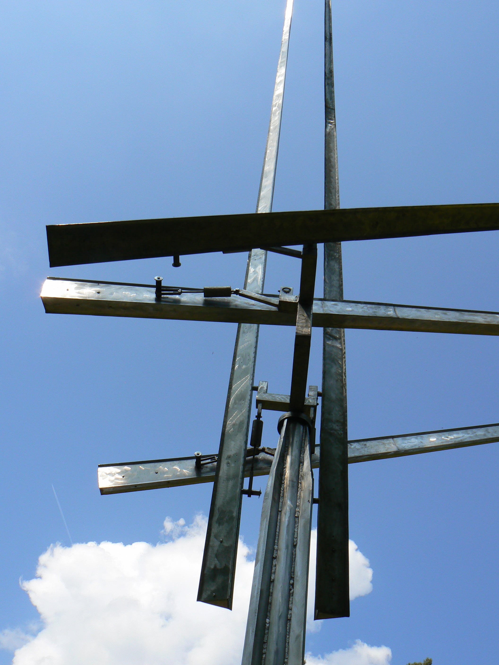 kinetic sculpture Two vertical, three horizontal lines (1965/6) by George Rickey in KMM Sculpturepark/The Netherlands